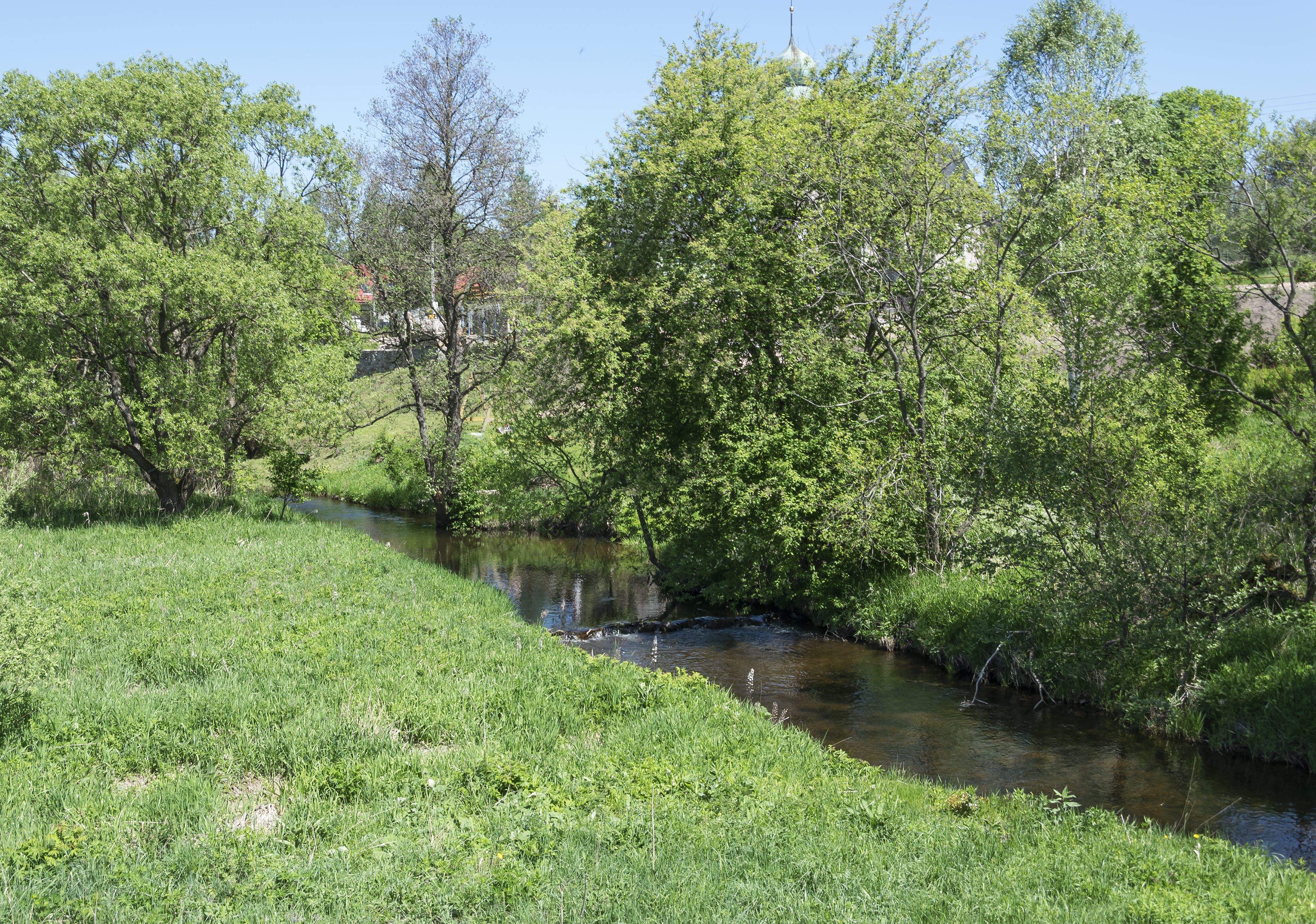 Dzika Orlica in Mostowice